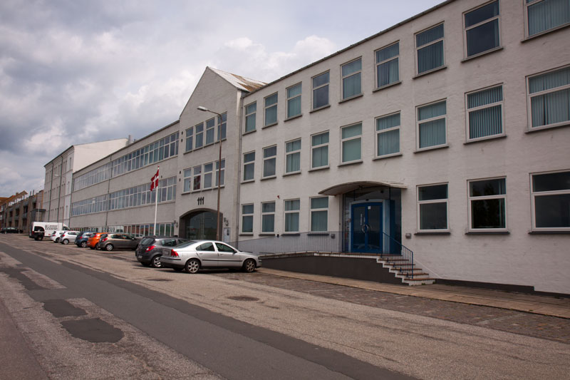 Denmarks only professional academy of Musical Theatre.